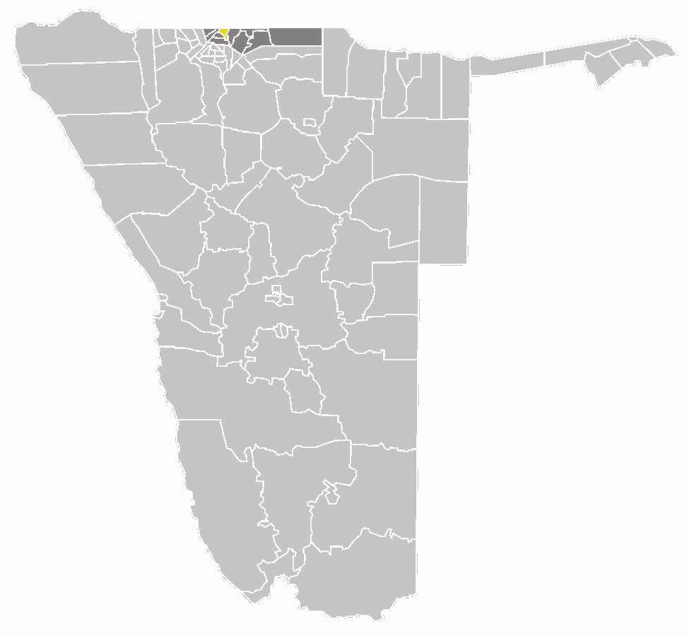 map of the Oshikango constituency within the Ohangwena region, Namibia